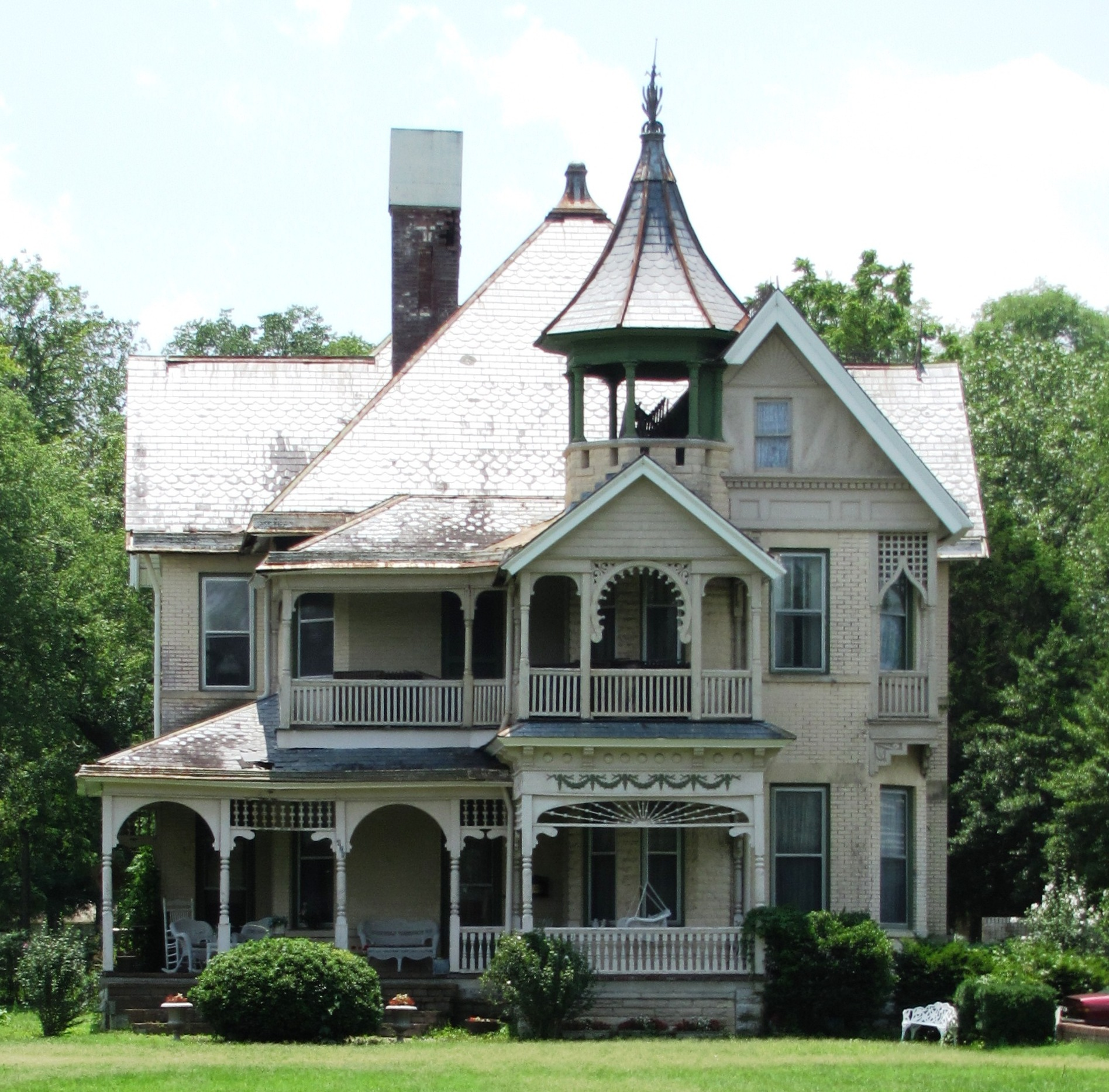 The Isaac W. P. Buchanan House (428 W. Main St.) in Lebanon, Tennessee, USA. Built in the 1890s, the house was designed by prominent Knoxville architect George F. Barber, and is now listed on the National Register of Historic Places.